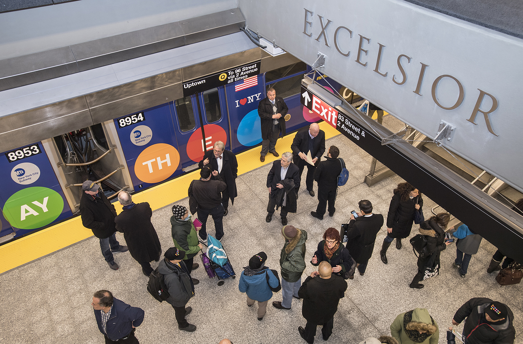 On December 30, 2016, Governor Andrew M. Cuomo and MTA Chairman and CEO Thomas F. Prendergast unveiled the Second Avenue Subway's 86th Street Station. An open house of the station followed. Photo: Metropolitan Transportation Authority / Patrick Cashin